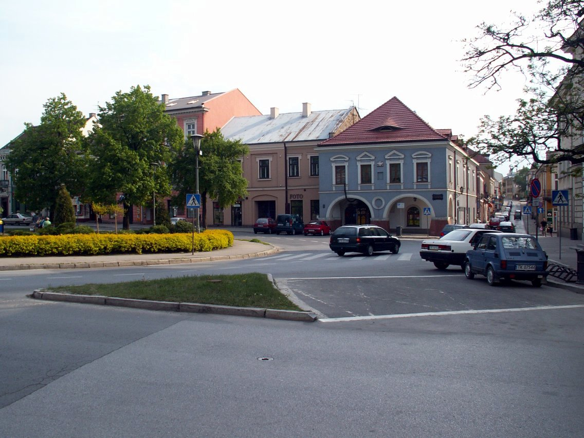 Tenement-house on main square in Kielce, Poland (main square before a major reconstruction in 2008-2011) 360 z 9.04.1972.